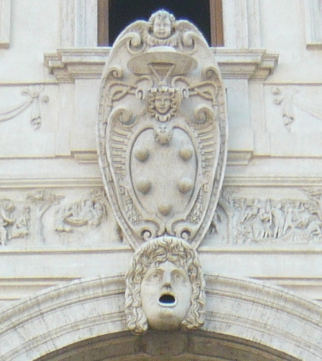 Cropped version of the House of Medici coat of arms on the garden facade of the Villa Medici, Rome.